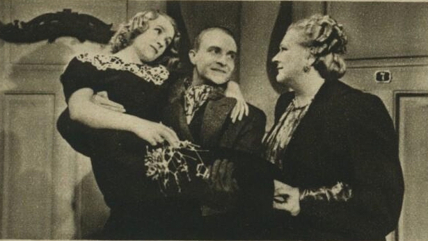 Nataša Gollová, Miroslav Homola, Růžena Nasková, 1941, movie "Konečně sami"